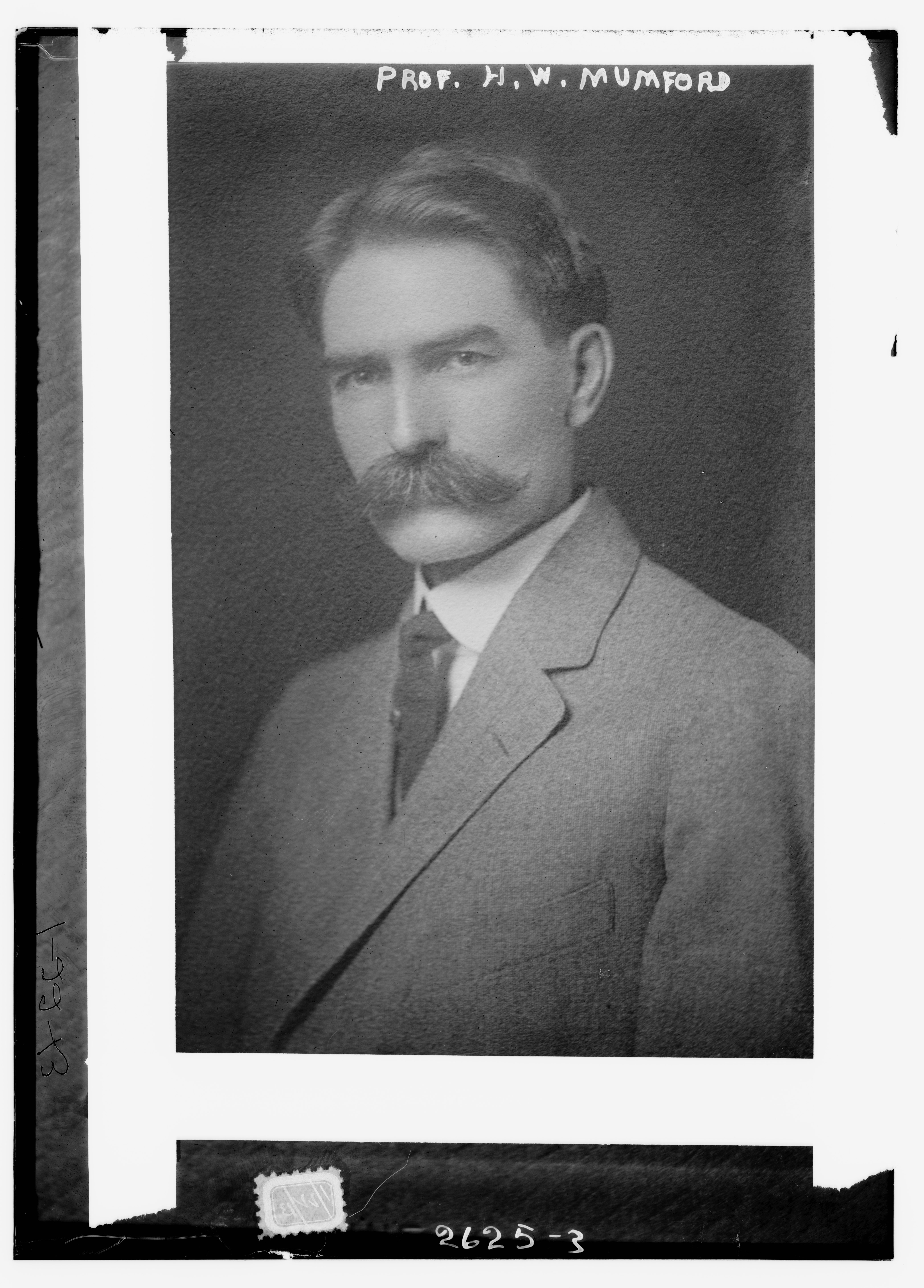 Title: Prof. H.W. Mumford Abstract/medium: 1 negative : glass ; 5 x 7 in. or smaller.